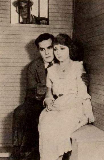 Still from the American film serial The Veiled Mystery (1920) with Antonio Moreno, Pauline Curley, and an unidentified actor at the window, on page 90 of the October 30, 1920 Exhibitors Herald.